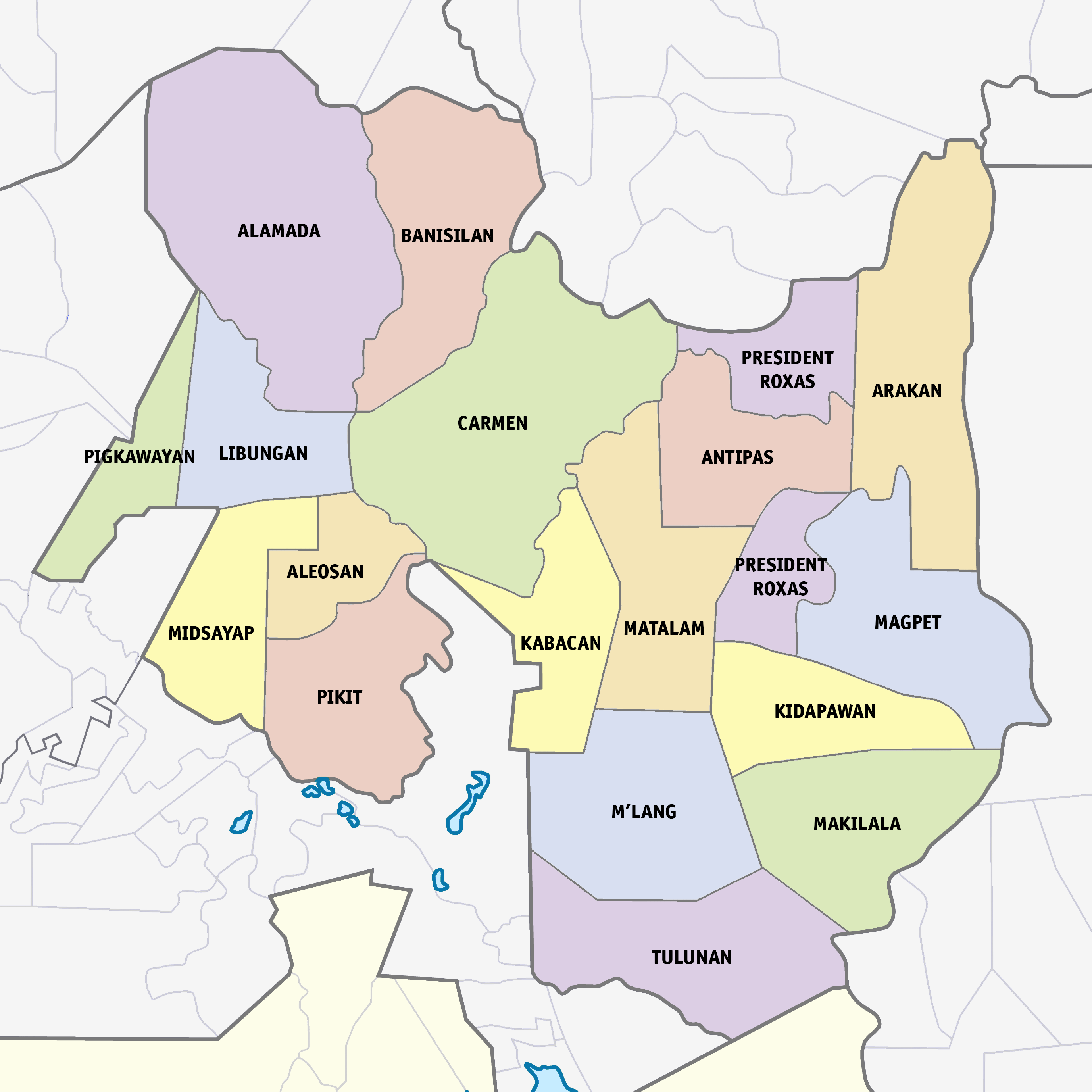 Political map of North Cotabato